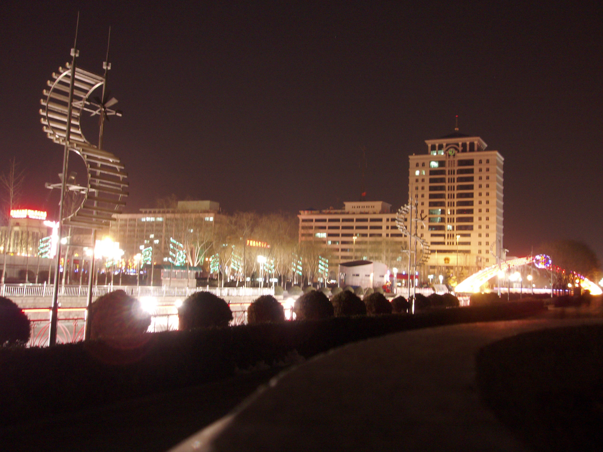 Night view of Minxinhe channal, Shijiazhuang, China